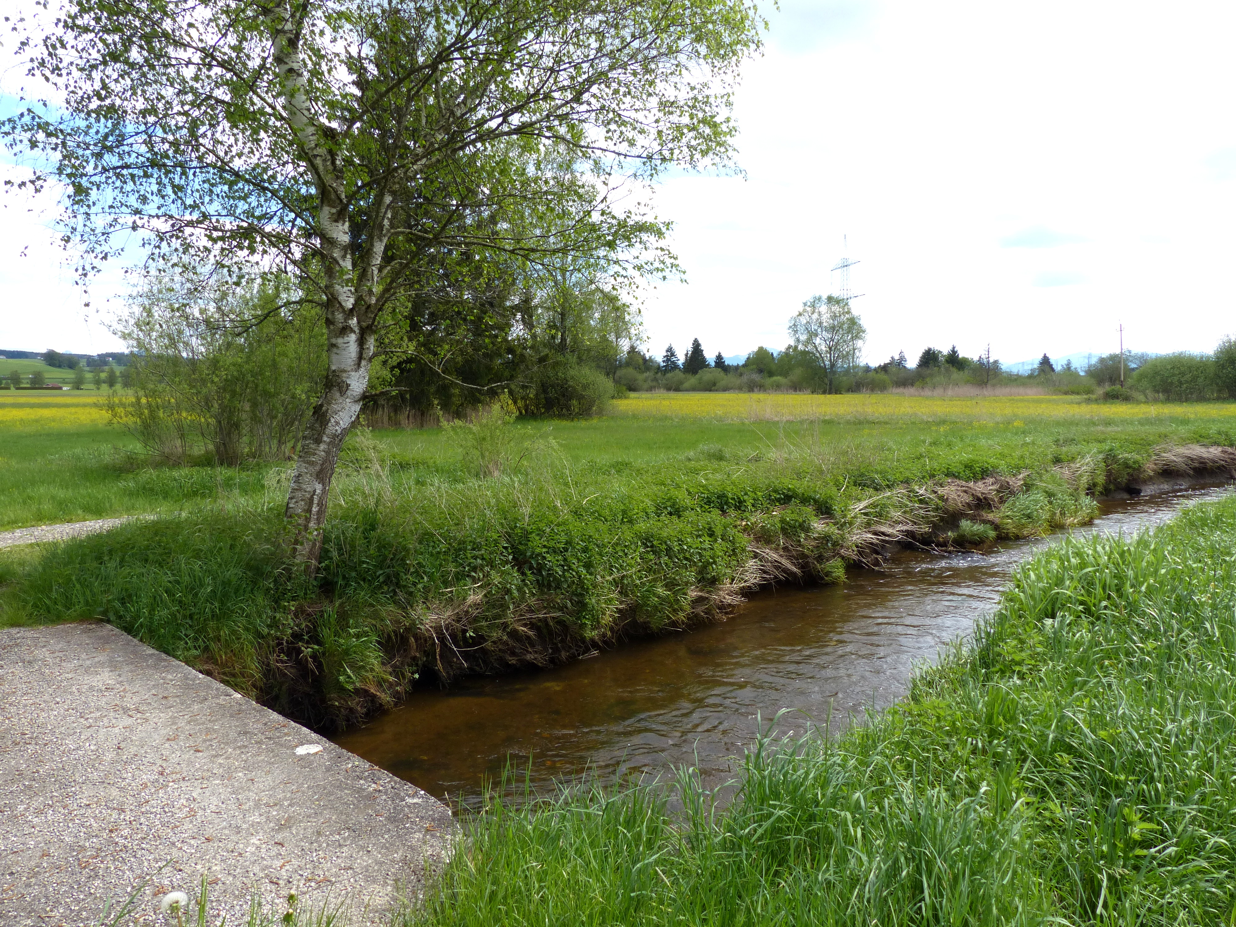 The creek "Leubas" located in the landscape protection area "Betzigauer Moos"